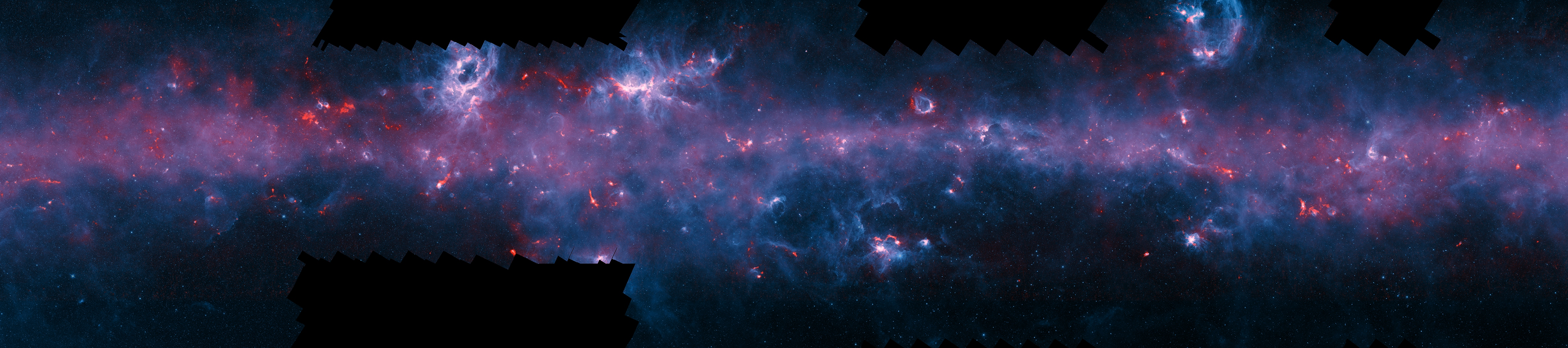 This image of the Milky Way has been released to mark the completion of the APEX Telescope Large Area Survey of the Galaxy (ATLASGAL). The APEX telescope in Chile has mapped the full area of the Galactic Plane visible from the southern hemisphere for the first time at submillimetre wavelengths — between infrared light and radio waves — and in finer detail than recent space-based surveys. The APEX data, at a wavelength of 0.87 millimetres, shows up in red and the background blue image was imaged at shorter infrared wavelengths by the NASA Spitzer Space Telescope as part of the GLIMPSE survey. The fainter extended red structures come from complementary observations made by ESA's Planck satellite. Note that the far right section of this long and thin image does not include Planck imaging. To fully appreciate this image click on it and zoom and scroll sideways.